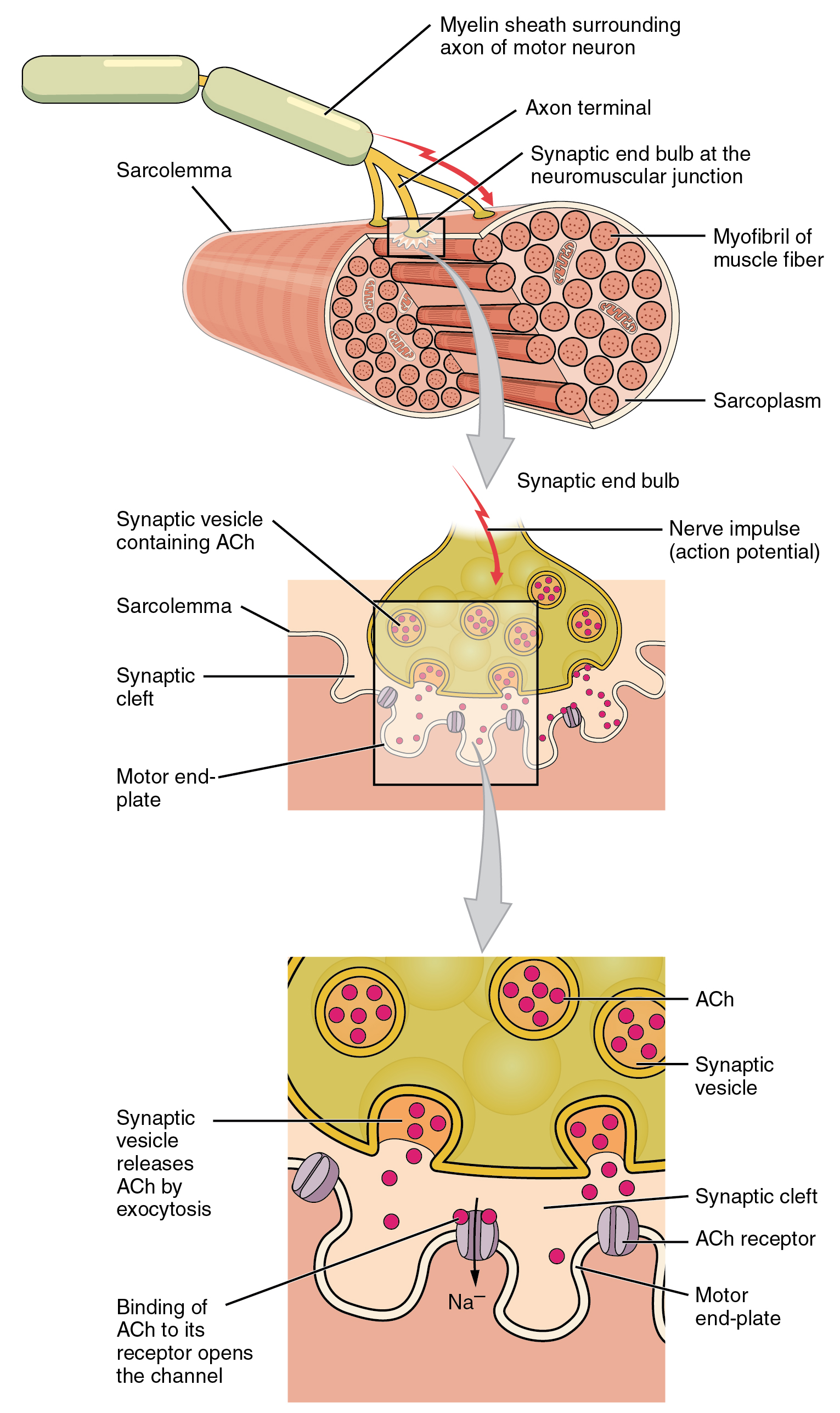 Version 8.25 from the Textbook OpenStax Anatomy and Physiology Published May 18, 2016